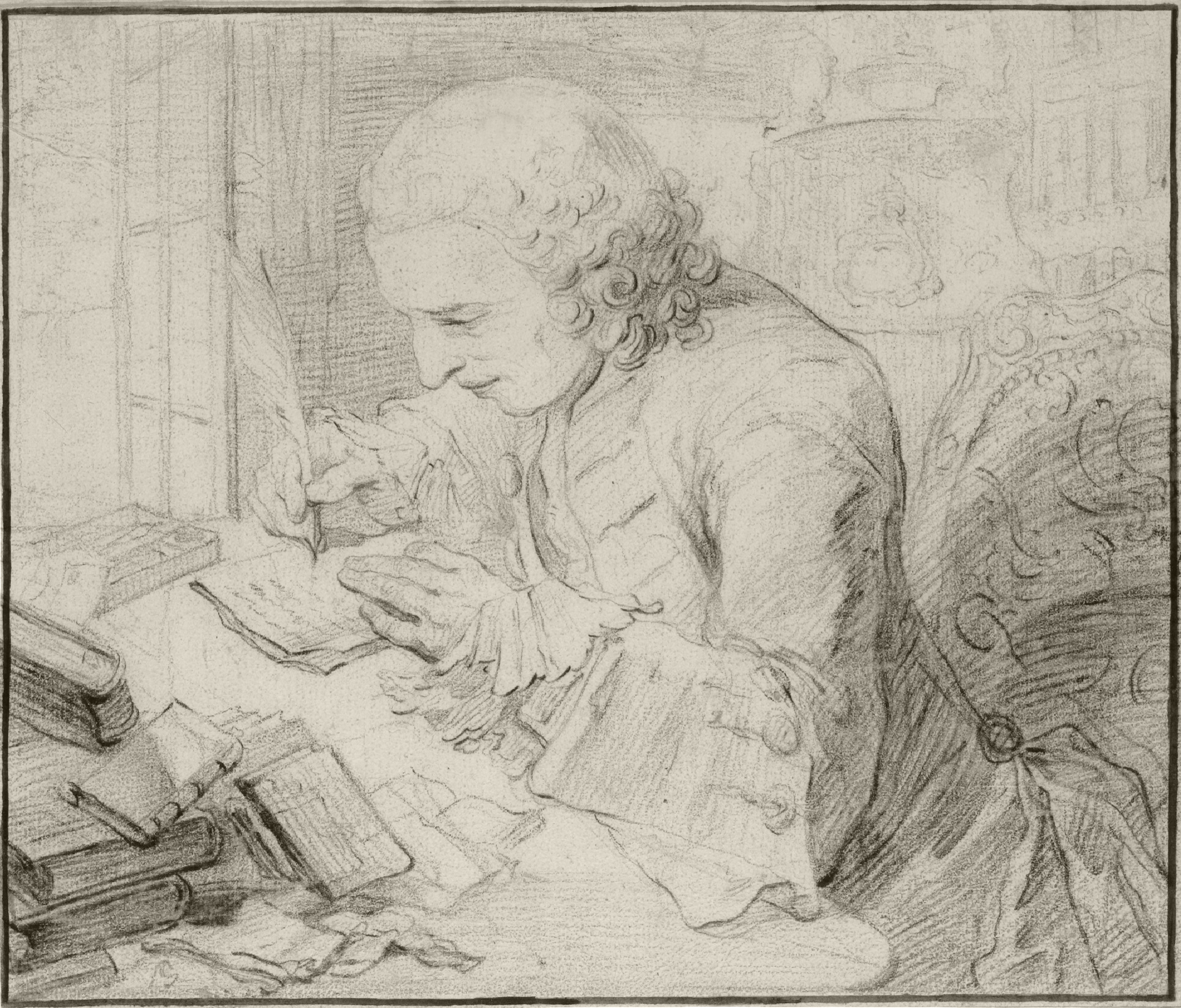 Michel-Jean Sedaine, writing at his desk black chalk 21.1 x 24.9 cm inscribed verso: portrait de Mr. Sedaine fait d'après nature / en 1749 par G. de St. Aubin